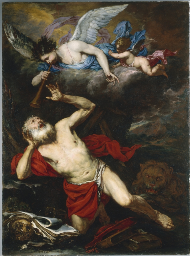 Vision of Saint Jerome